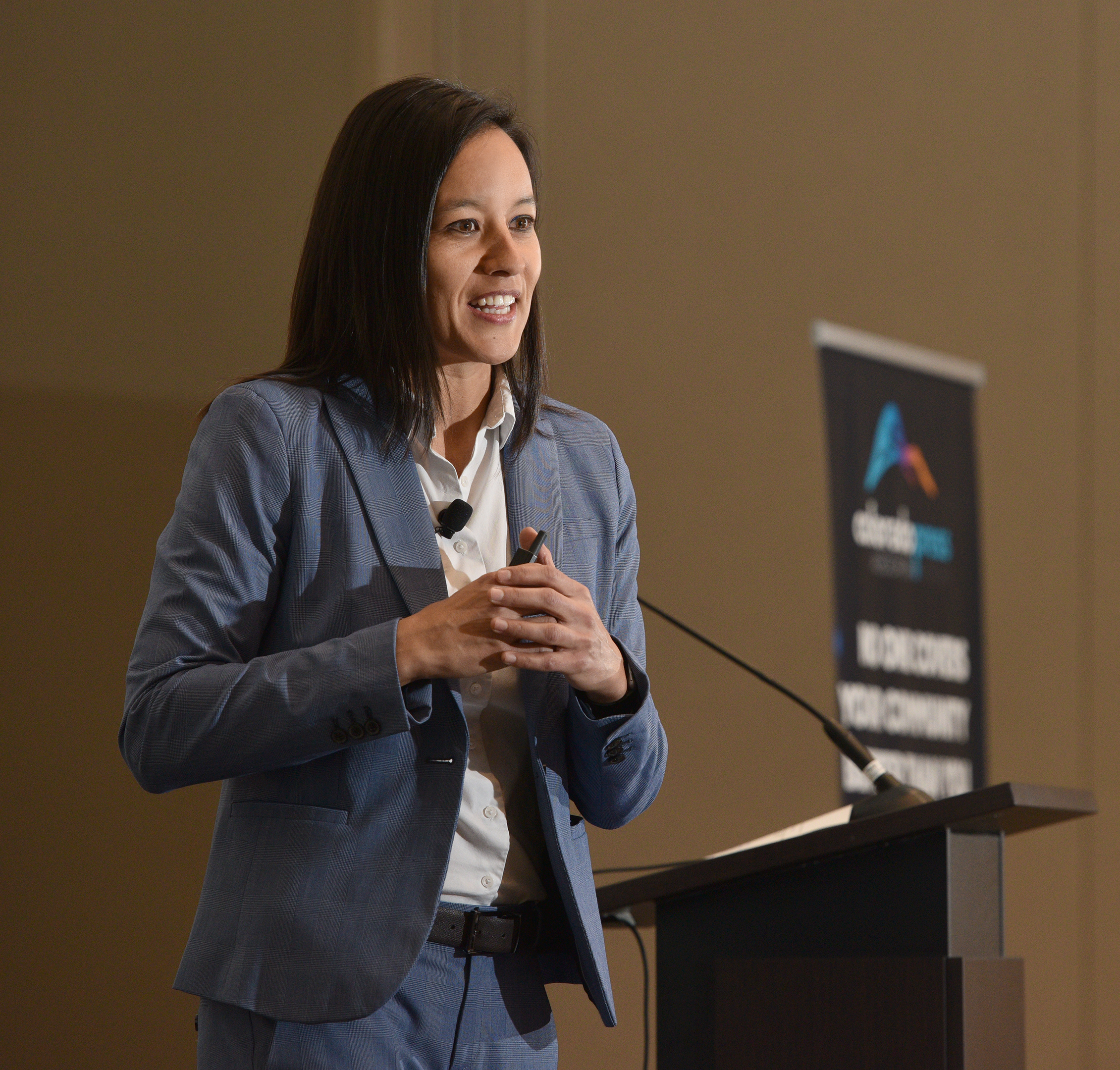 This is a photograph of Vanessa Otero speaking at the Colorado Press Association Convention in April 2019